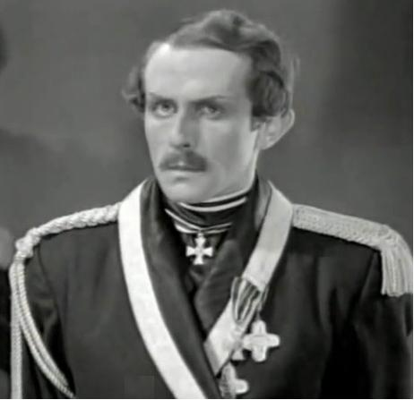 Yuri Domogarov in film Suvorov (1940).